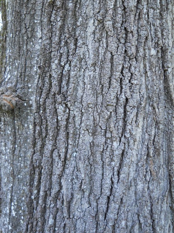 Bark of mature Quercus falcata